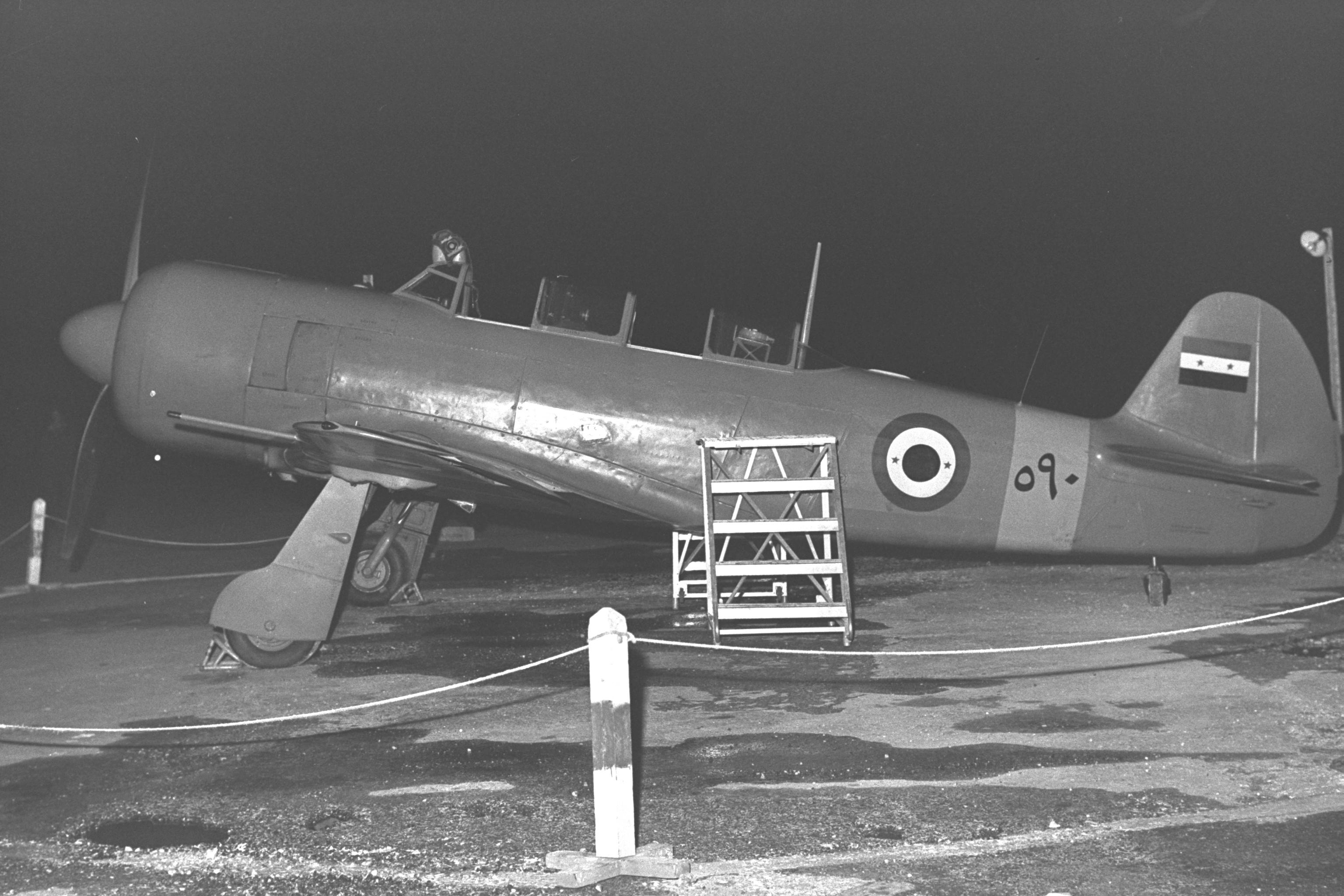 On January 19, 1964, Egyptian pilot Mahmud Abbas Hilmi defected from el-Arish Air Base to Hatzor Air Base in Israel in his Yakovlev Yak-11 trainer.